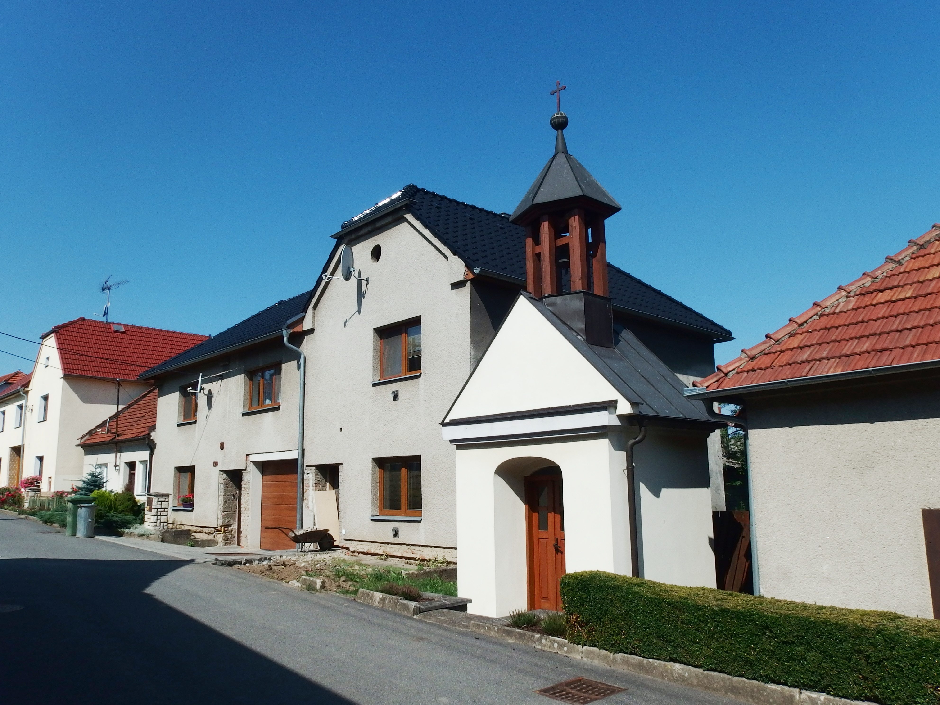 Ústí, Přerov District, Czech Republic.